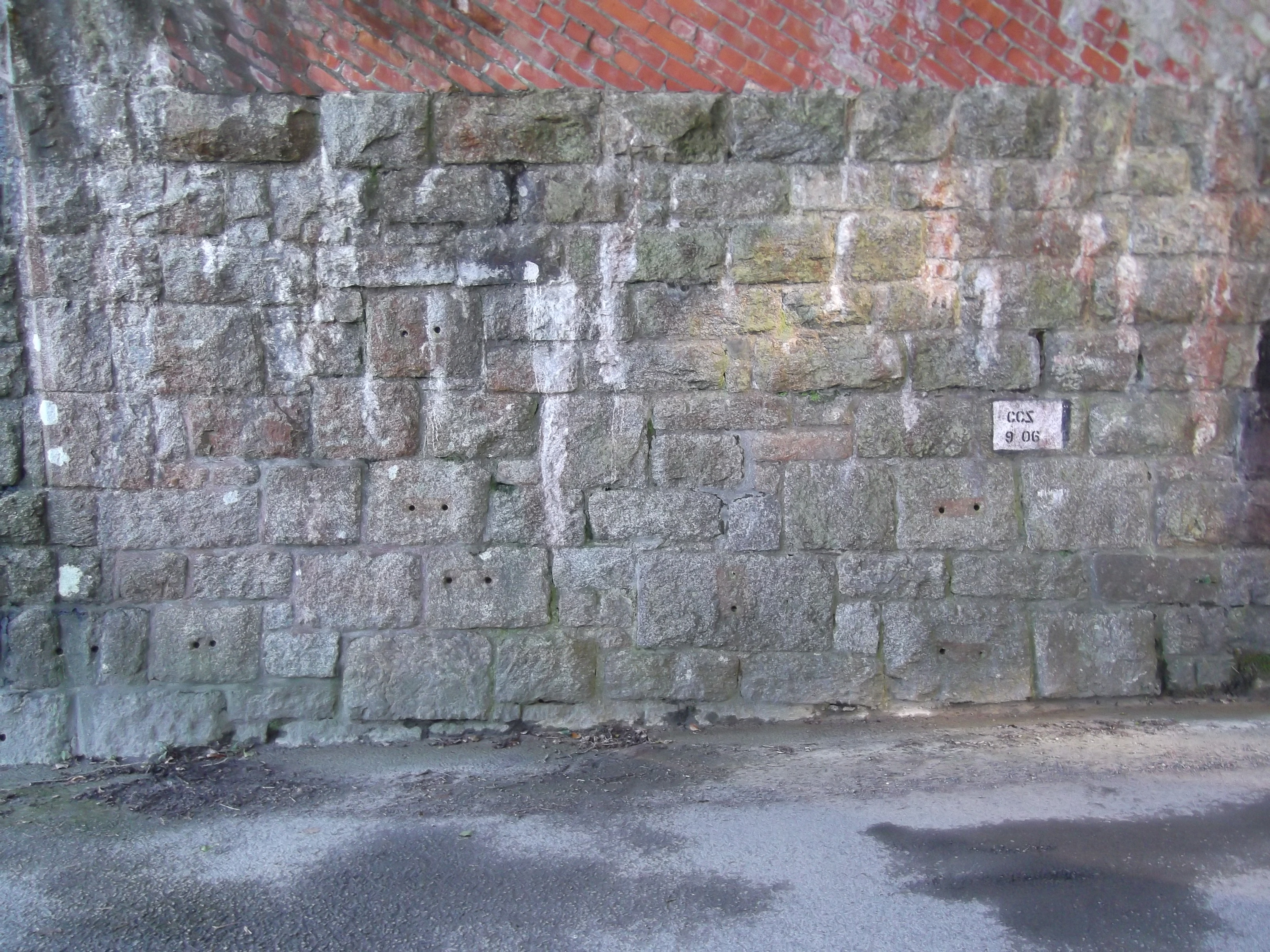 Sleeper blocks incorporated into the east abutment of Woodhill Bridge on the former Liskeard and Caradon line